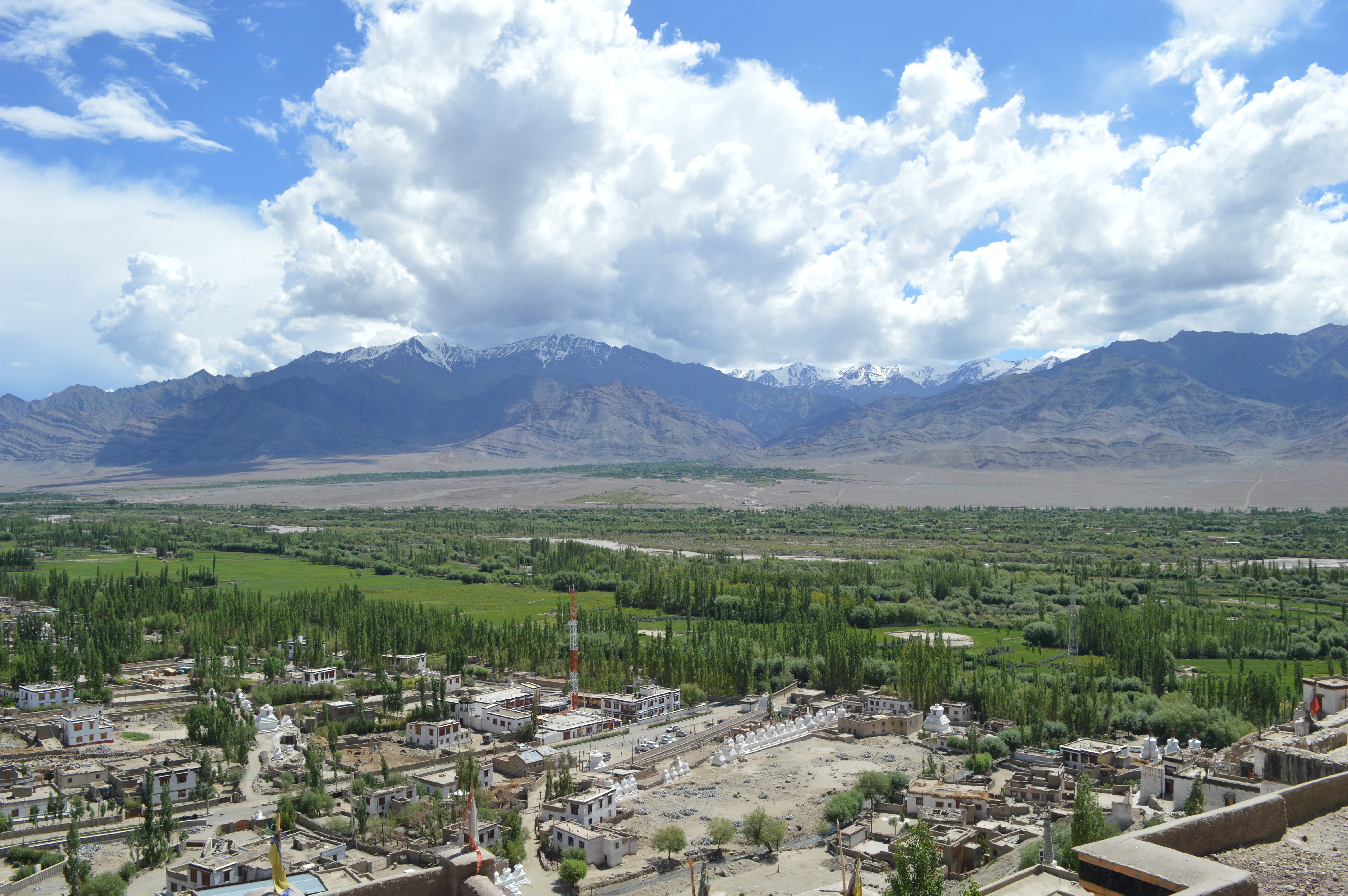 A Top view from Thiksey monastery in ladakh, India.